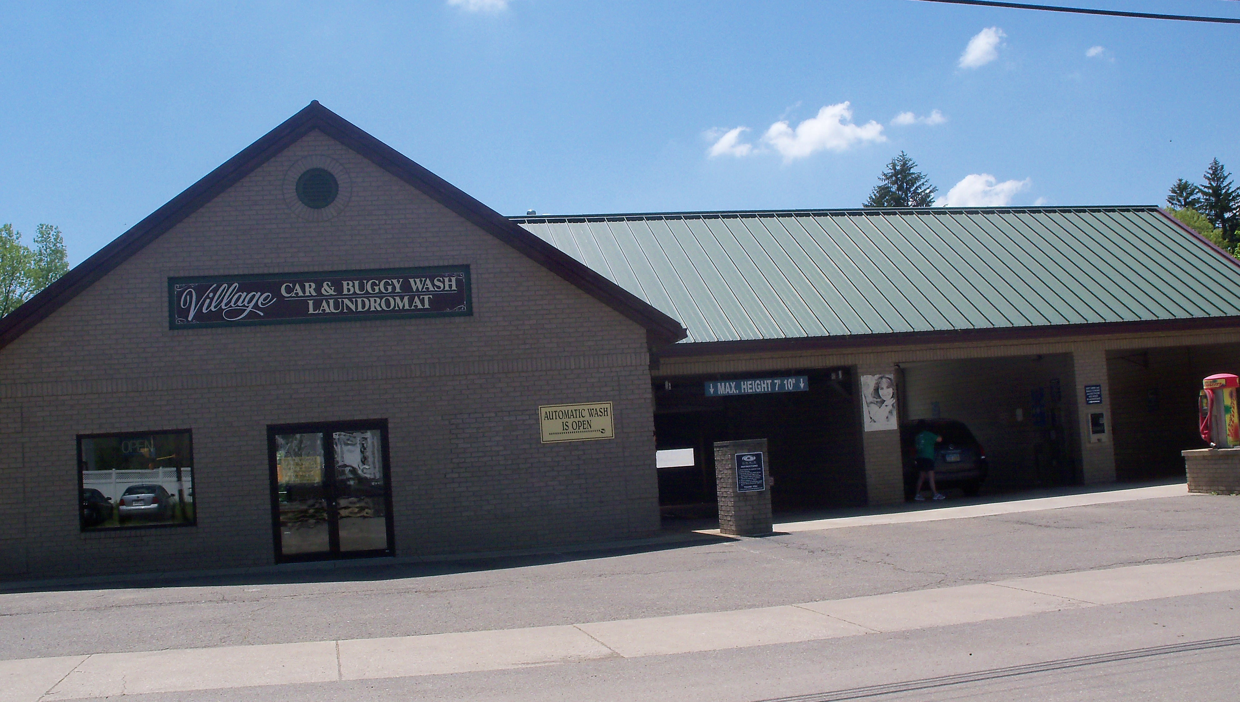 This business provides a buggy wash, Car wash and Self-service laundry in Fredericksburg, Ohio